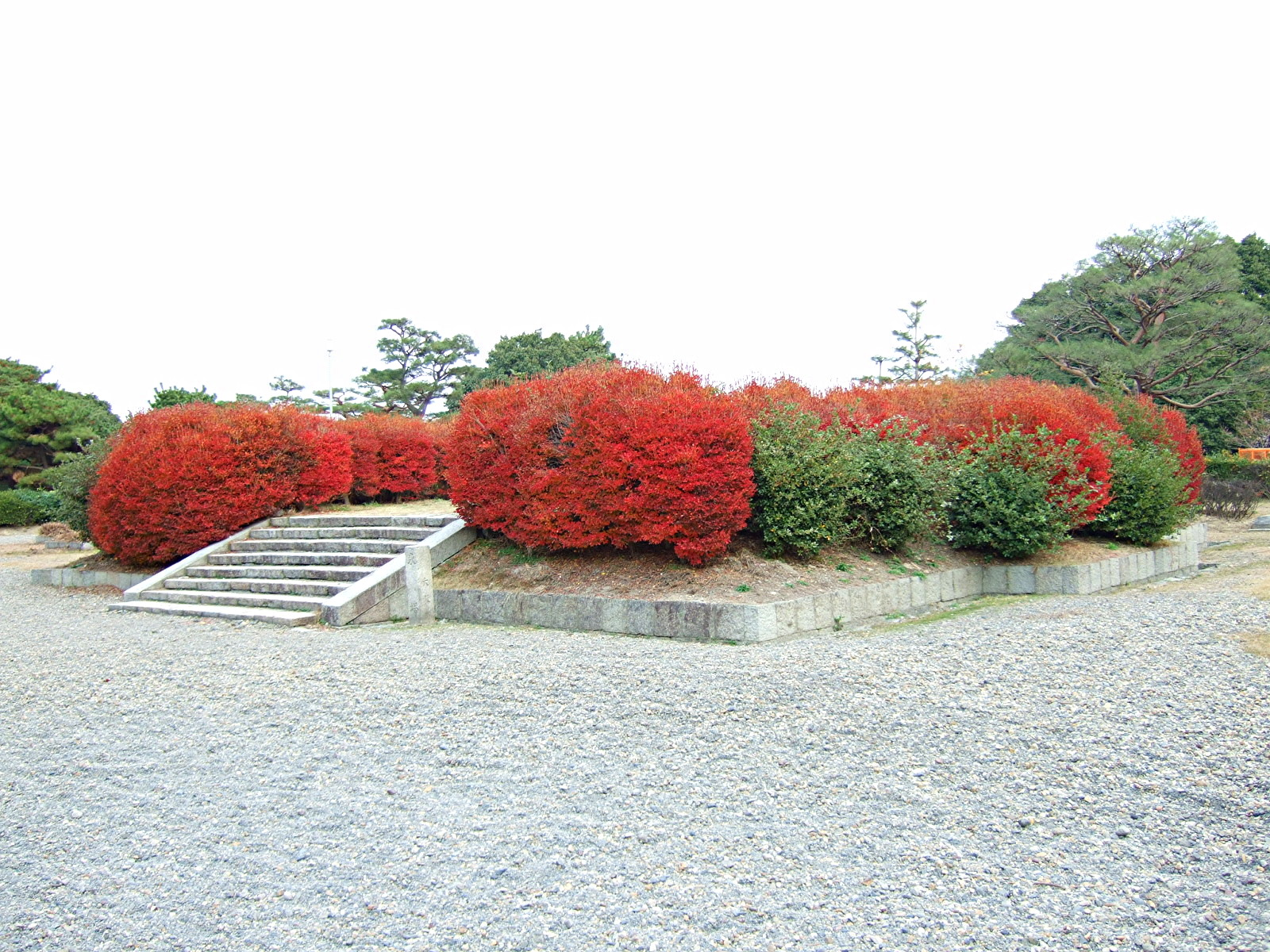 Kudara temple's east tower base